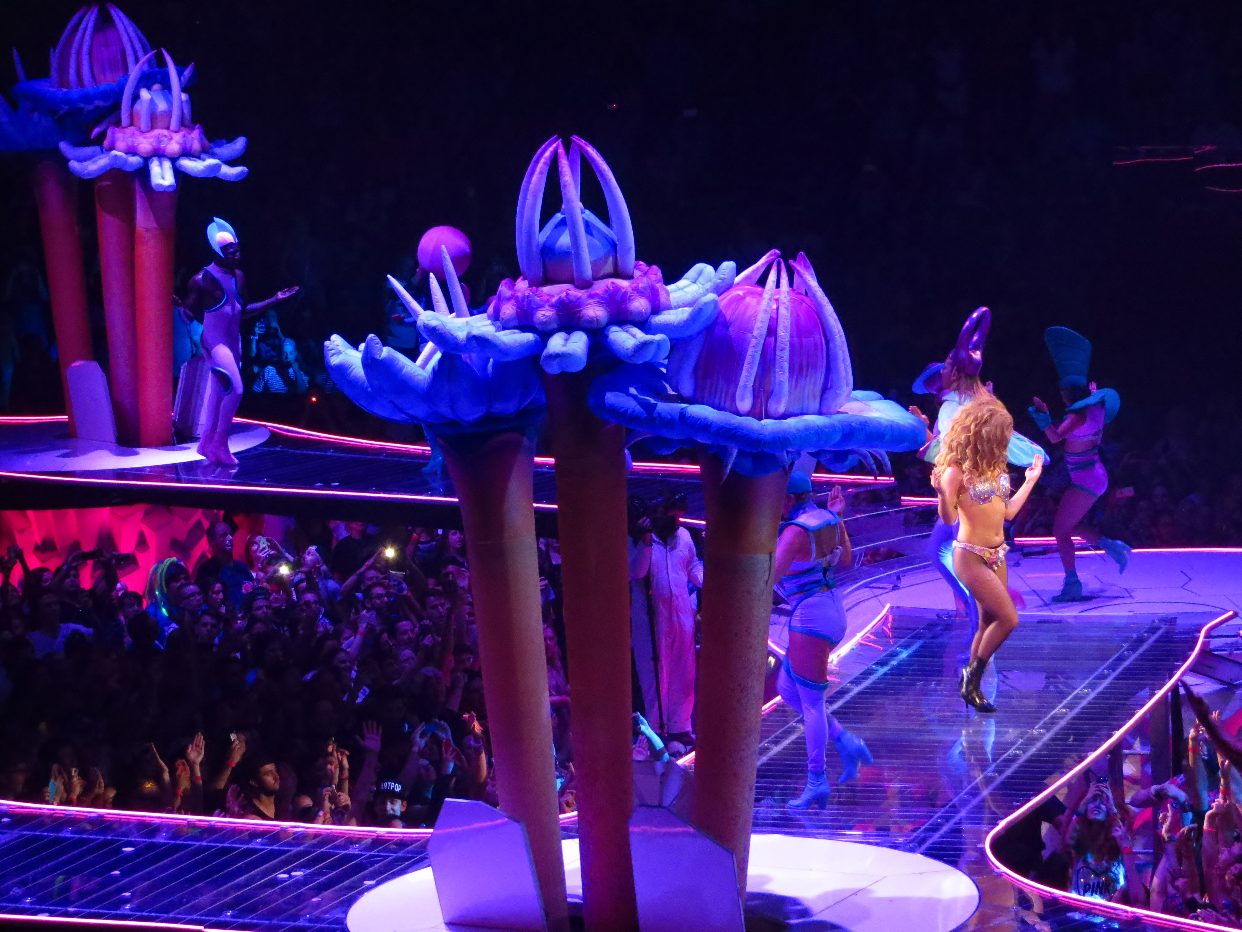 Lady Gaga, ARTPOP Ball Tour, Bell Center, Montréal, 2 July 2014 (19) Gaga performing on ArtRave: The Artpop Ball tour